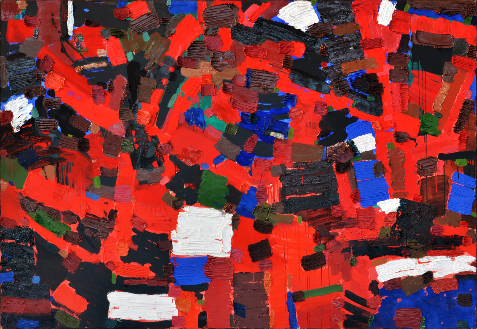 Sonia Jakuschewa, Red Landscape (I), 2001